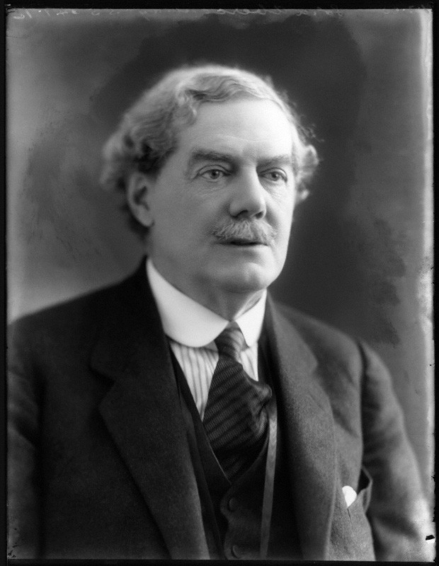 Portrait of Charles McLaren, 1st Baron Aberconway (1850–1934)